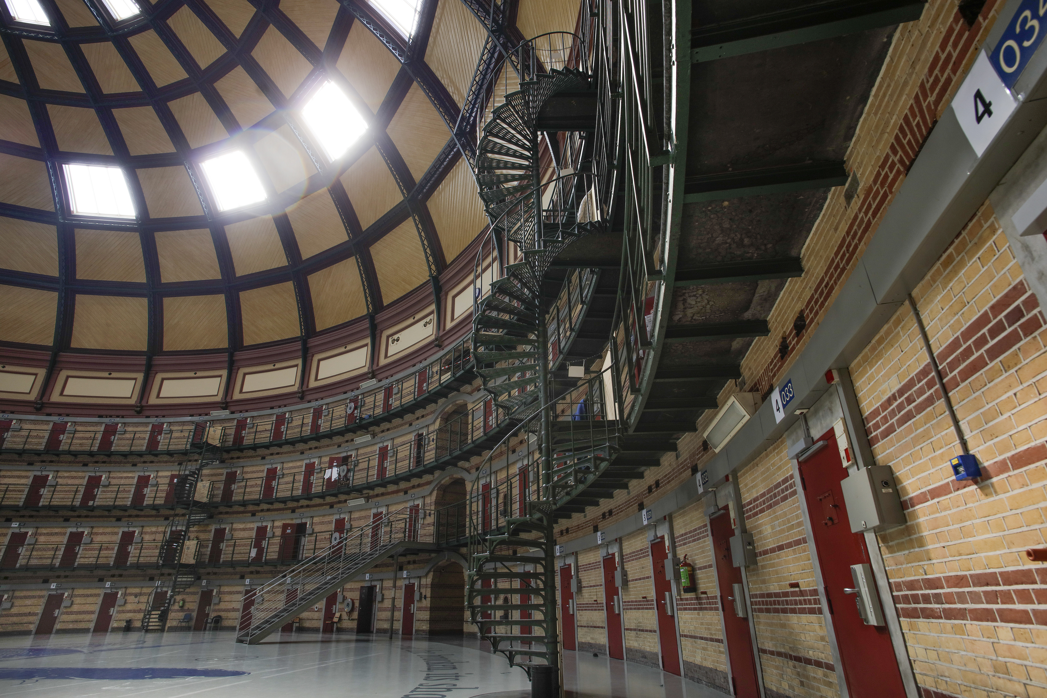 Interieur Koepelgevangenis Arnhem